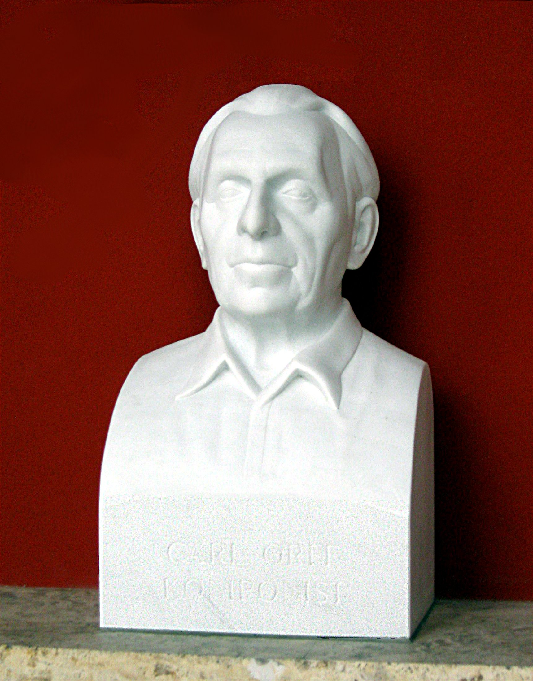 Munich Hall of Fame: Composer Carl Orff (installed in 2009)